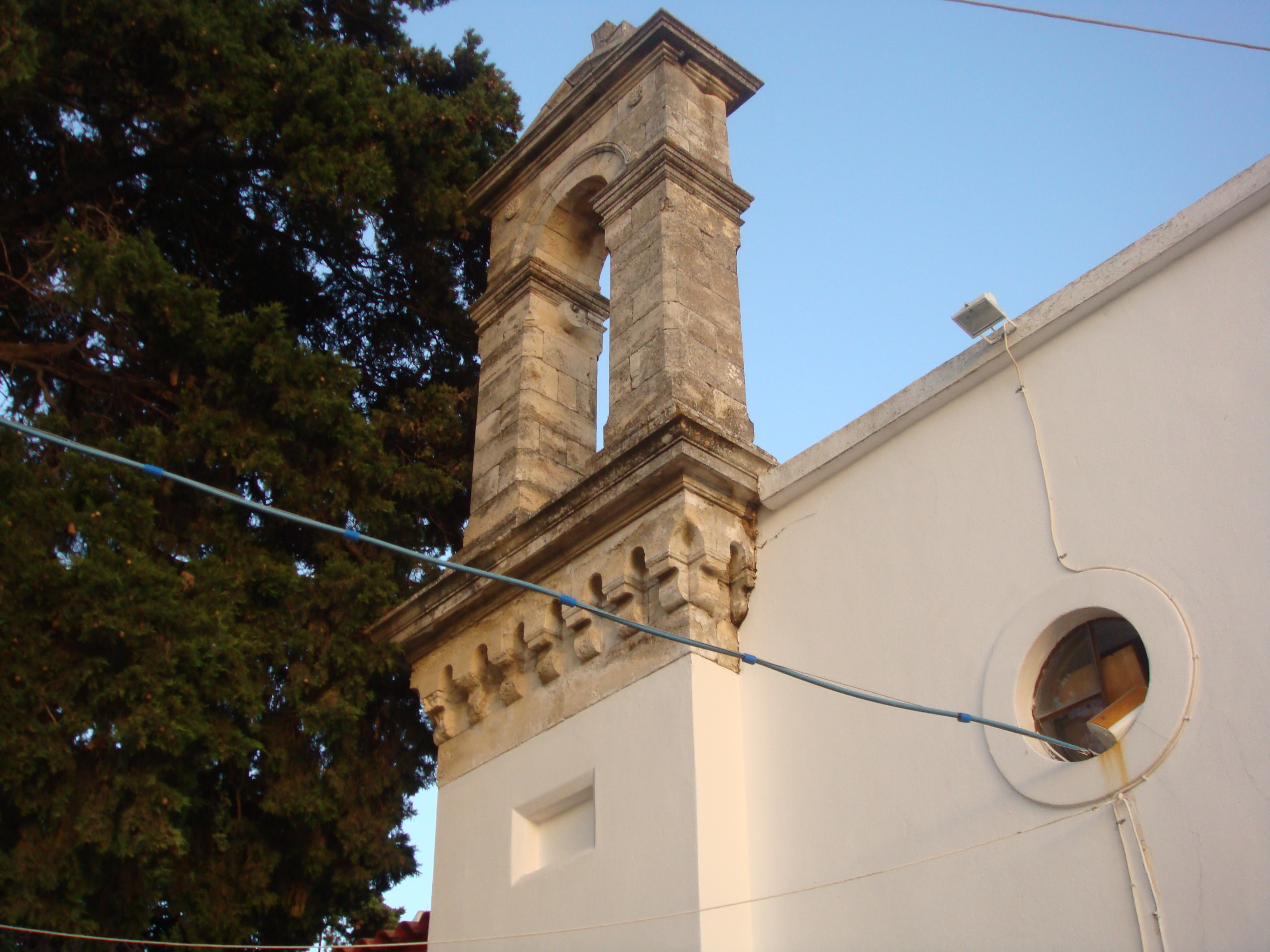 Church of Agia Zoni in Agies Paraskies, Iraklion prefecture.